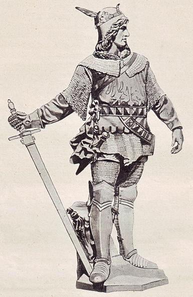 Former statue in Berlin commemorating to Waldemar, Margrave of Brandenburg-Stendal (ca. 1280–1319). Prototype for the early monuments in the Siegesallee. Sculptor: Max Unger, errected in 1894 or 1895.